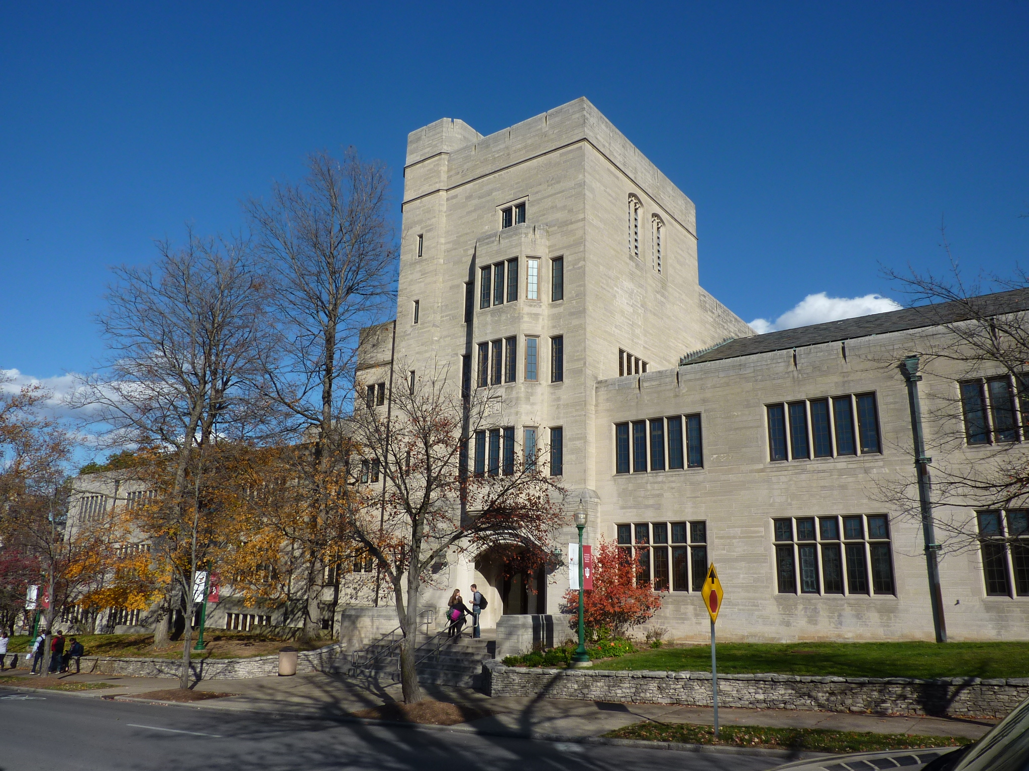 Maurer School of Law, Bloomington, Indiana